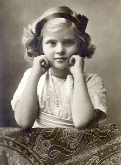 Princess Theodora of Greece and Denmark (1906–1969) 4 years old in 1910